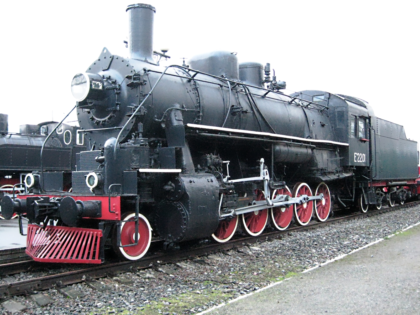 Freight steam locomotive YeA 2201 Weight in working order:excluding tender100t.including tender170 t.Design speed70 kphMaximum power at wheel rim2200 hp YeA 2201 was built by Baldwin in 1944 for the USSR under the Lend-Lease scheme. From 1944 it was operated at the TsNII NKPS test track at Shcherbinka near Moscow, and worked on the Far Eastern Railway from 1955.